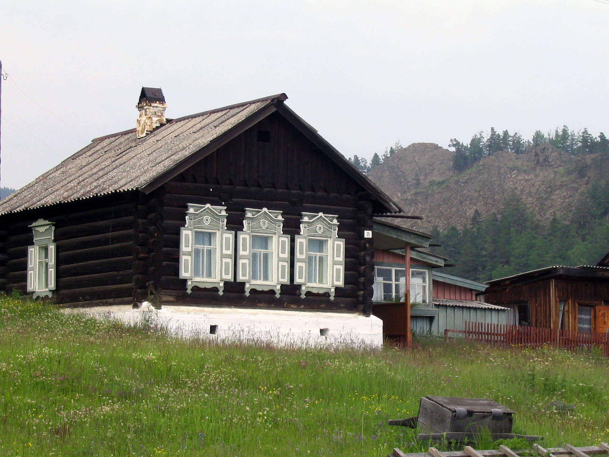 Picture of wooden house at Bolshie Koty, Russia on shores of Lake Baikal. Taken by me 7/06, released into public domain